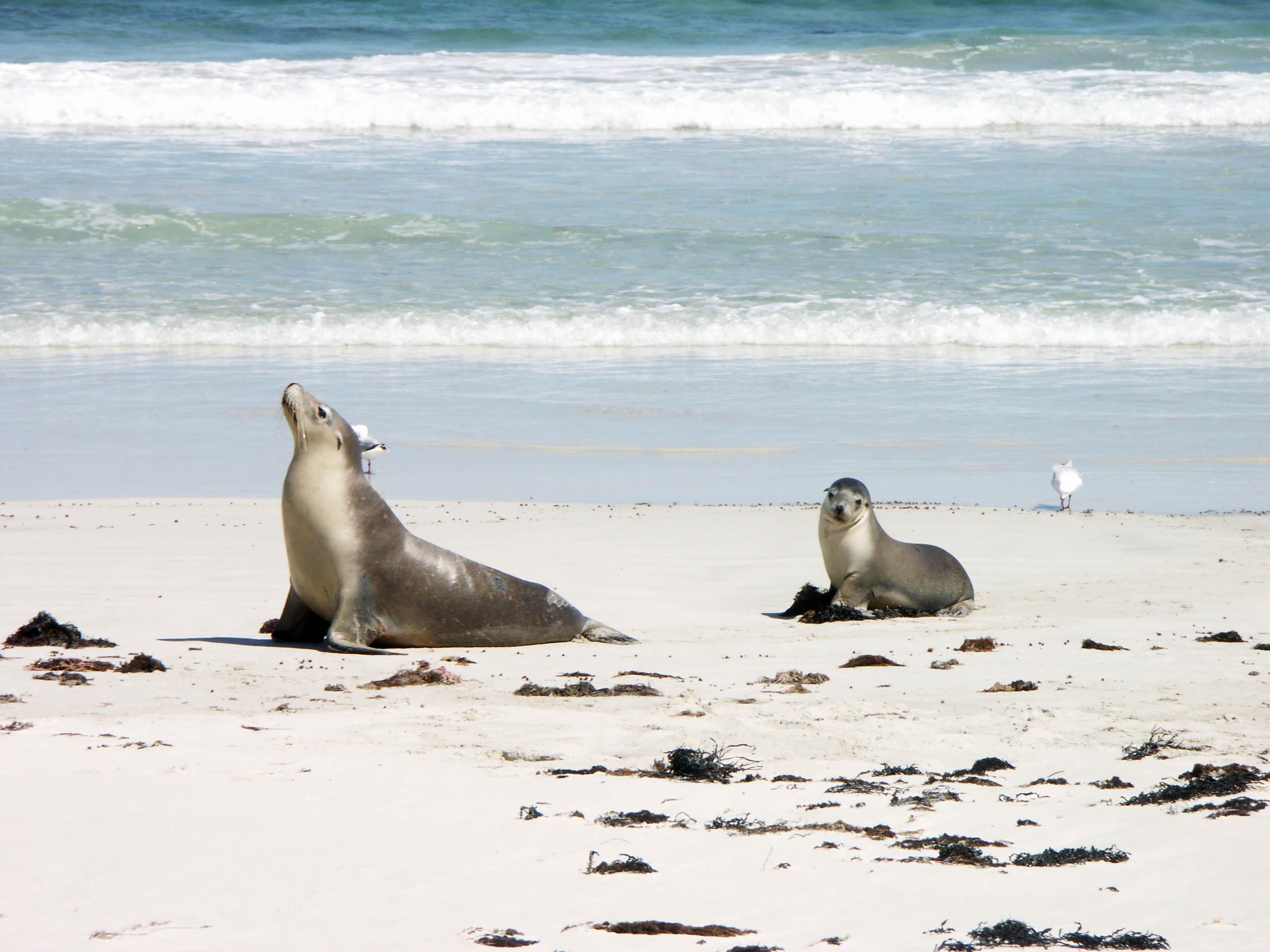 Lion de mer et son petit sur la plage de Seal Bay, Kangaroo Island - Australia / Sea lion and its pup - Seal Bay - Kangaroo Island - Australia